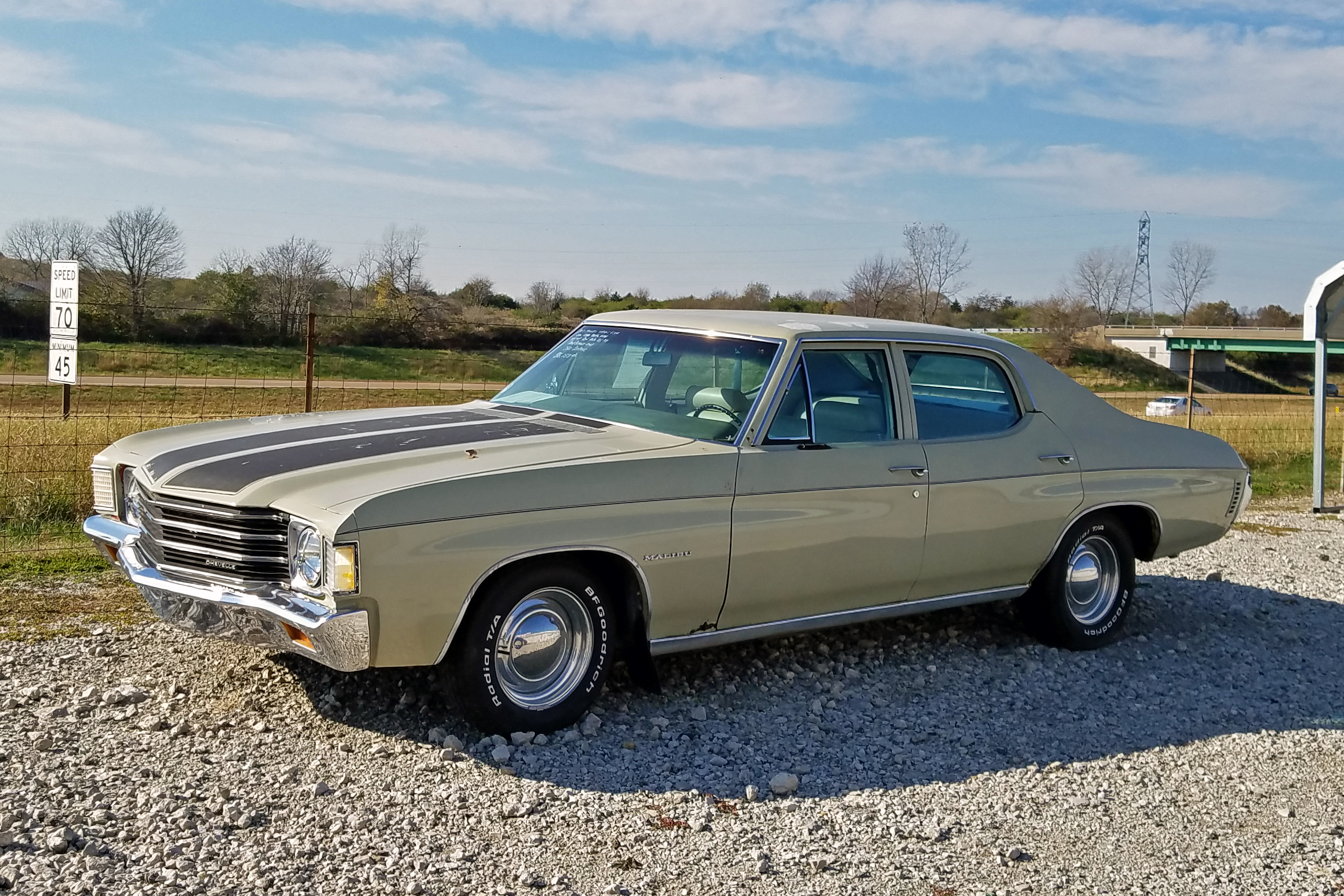 A 1972 Chevrolet Chevelle Malibu at Country Classic Cars, Staunton, IL.